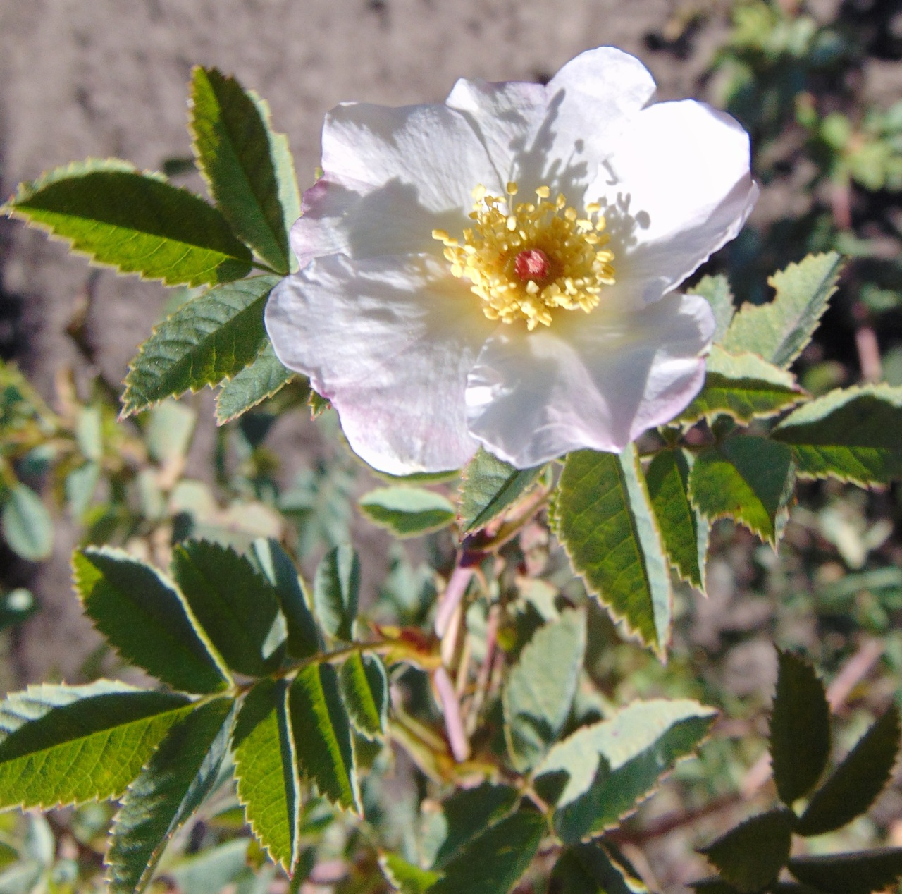 Rosa fedtschenkoana, Devonian Botanic Garden